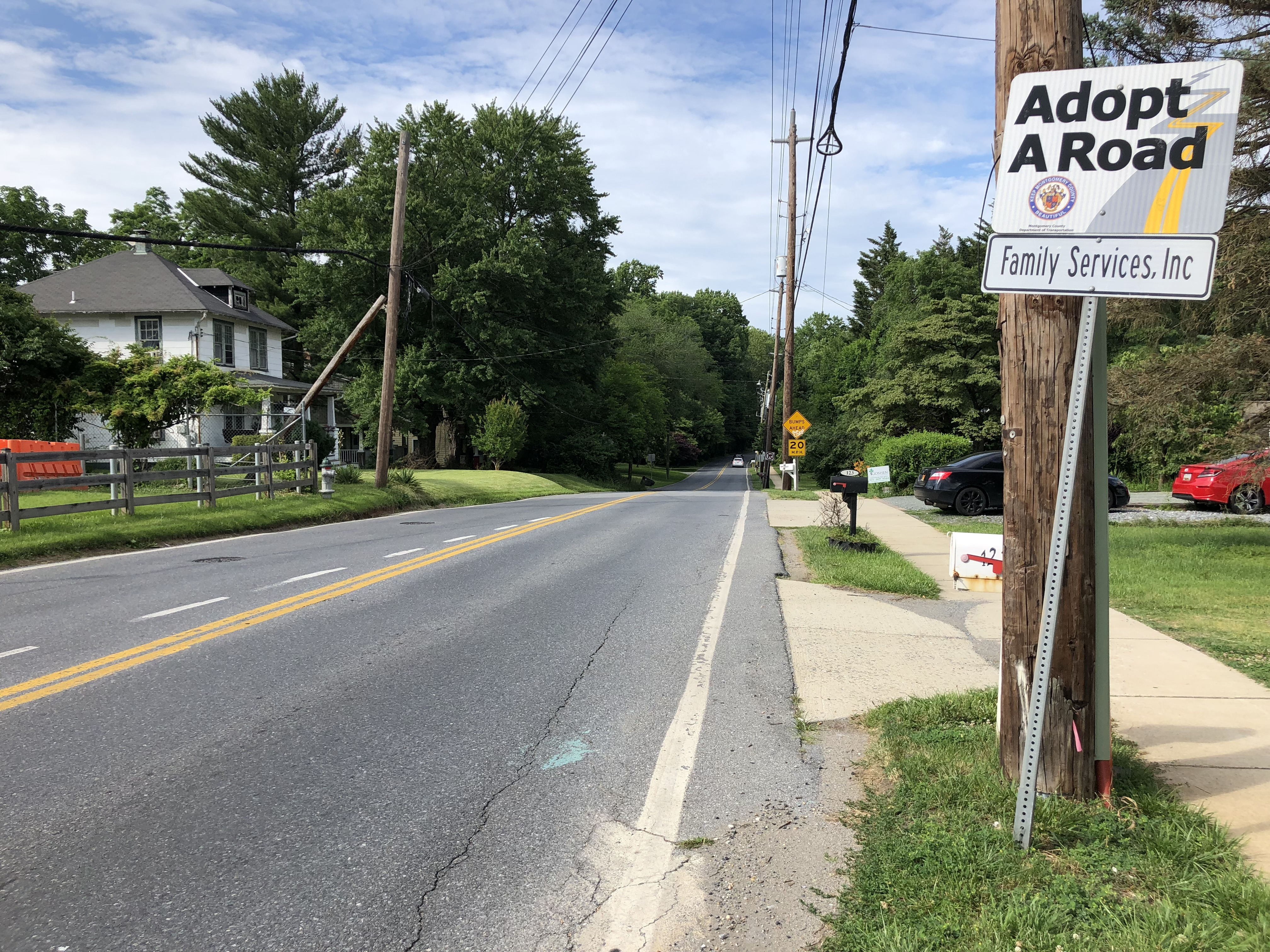 View northeast along Washington Grove Lane between Railroad Street and Oak Street in Washington Grove, Montgomery County, Maryland